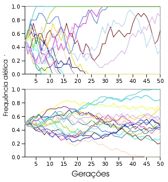 Adapted from image:Allele-frequency.png with Portuguese captions.